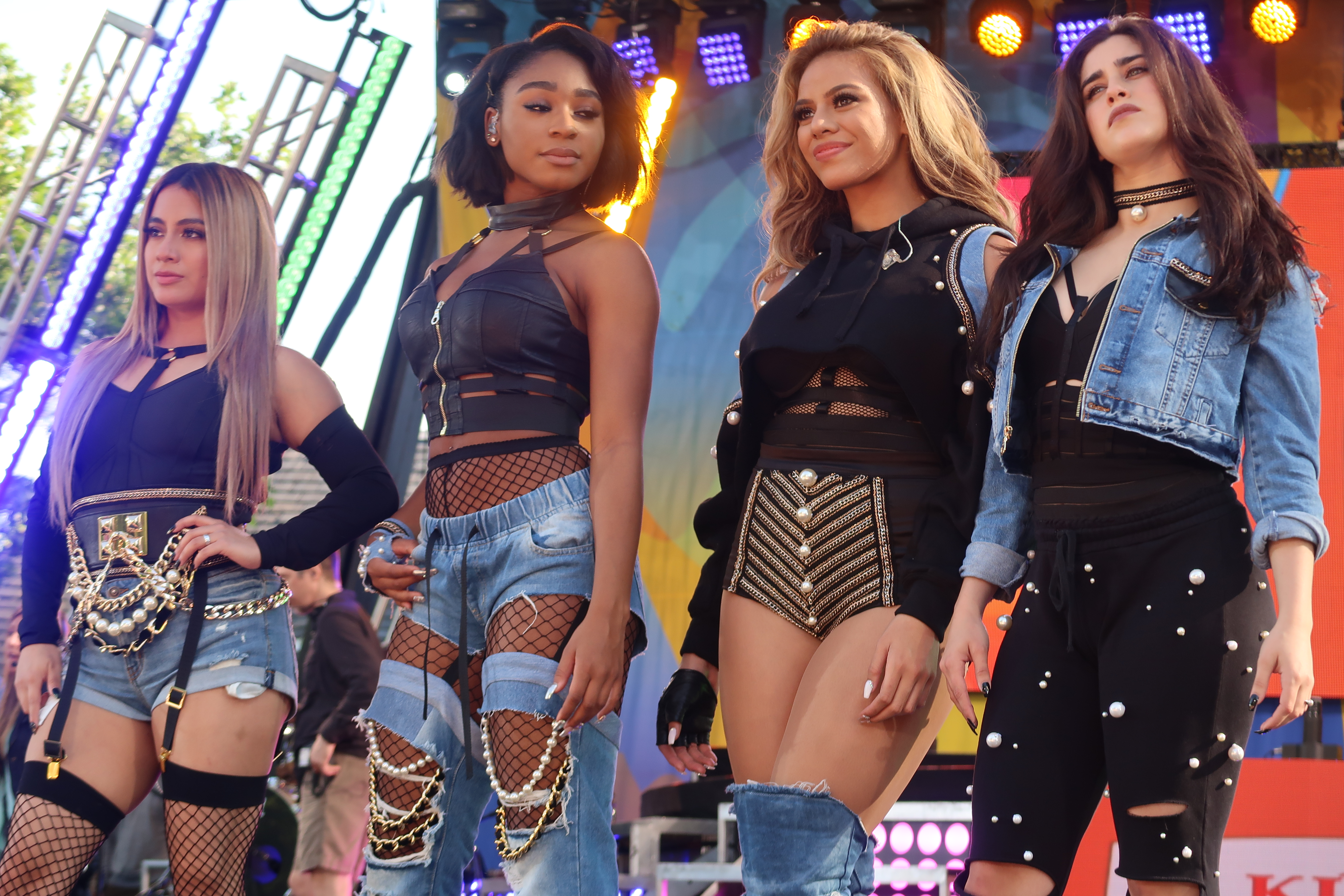 fifth_harmony3